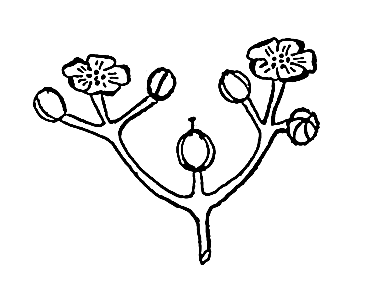 Line art drawing of a cyme, which is the main kind of cymose; cymose are determinate simple inflorescences.